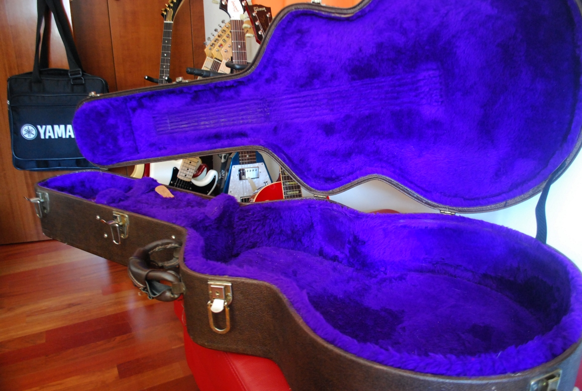 1996 Gibson Montana Blues King Electro VS 1996 Gibson Blues King Electro Vintage Sunburst, includes paperwork, humidifier and original hard shell "Gibson Montana" hard case.